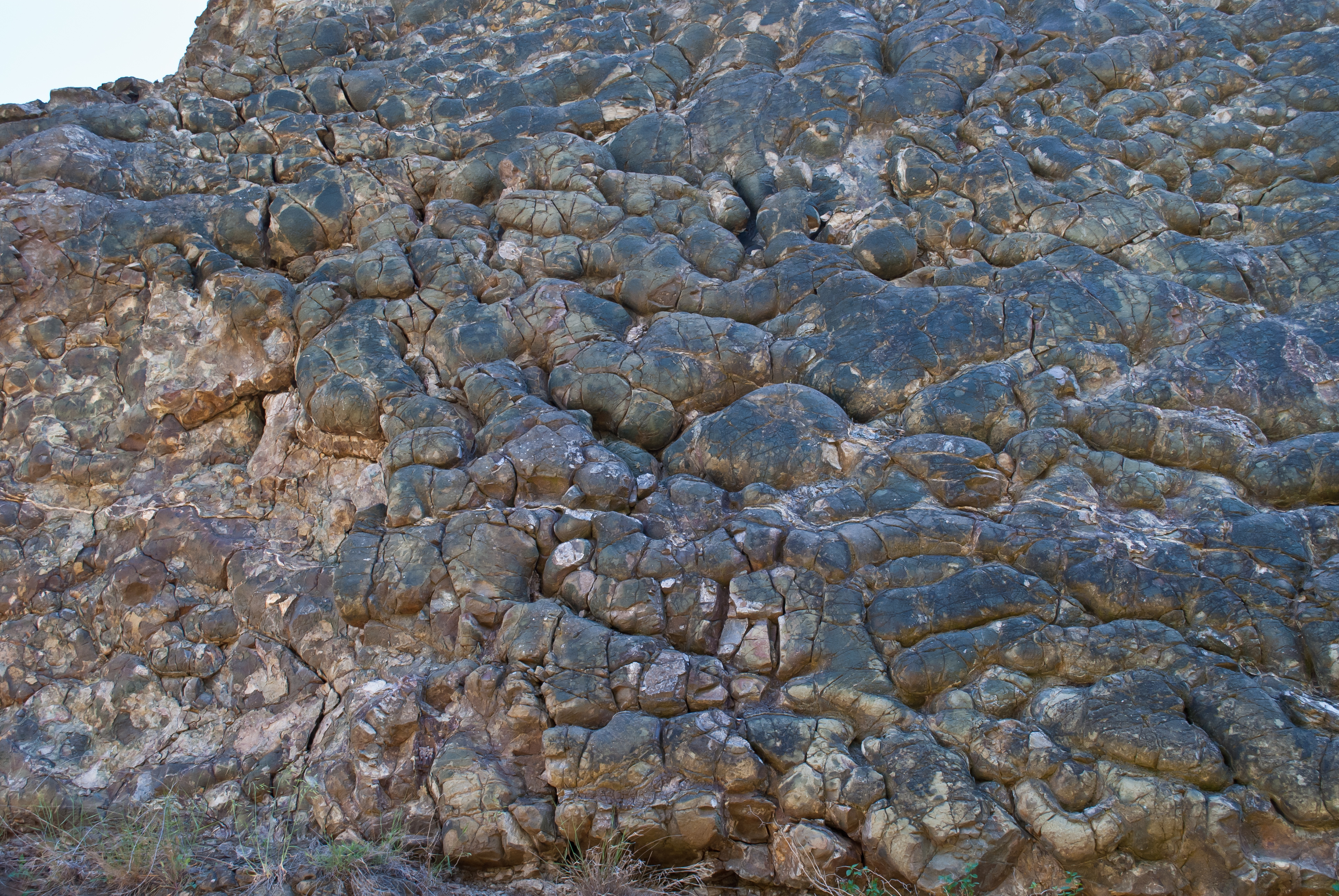 Petrified lava outcrop (the so called Petropavlovka volcano); vilage Petropavlovka, Simferopol district. Close-up.